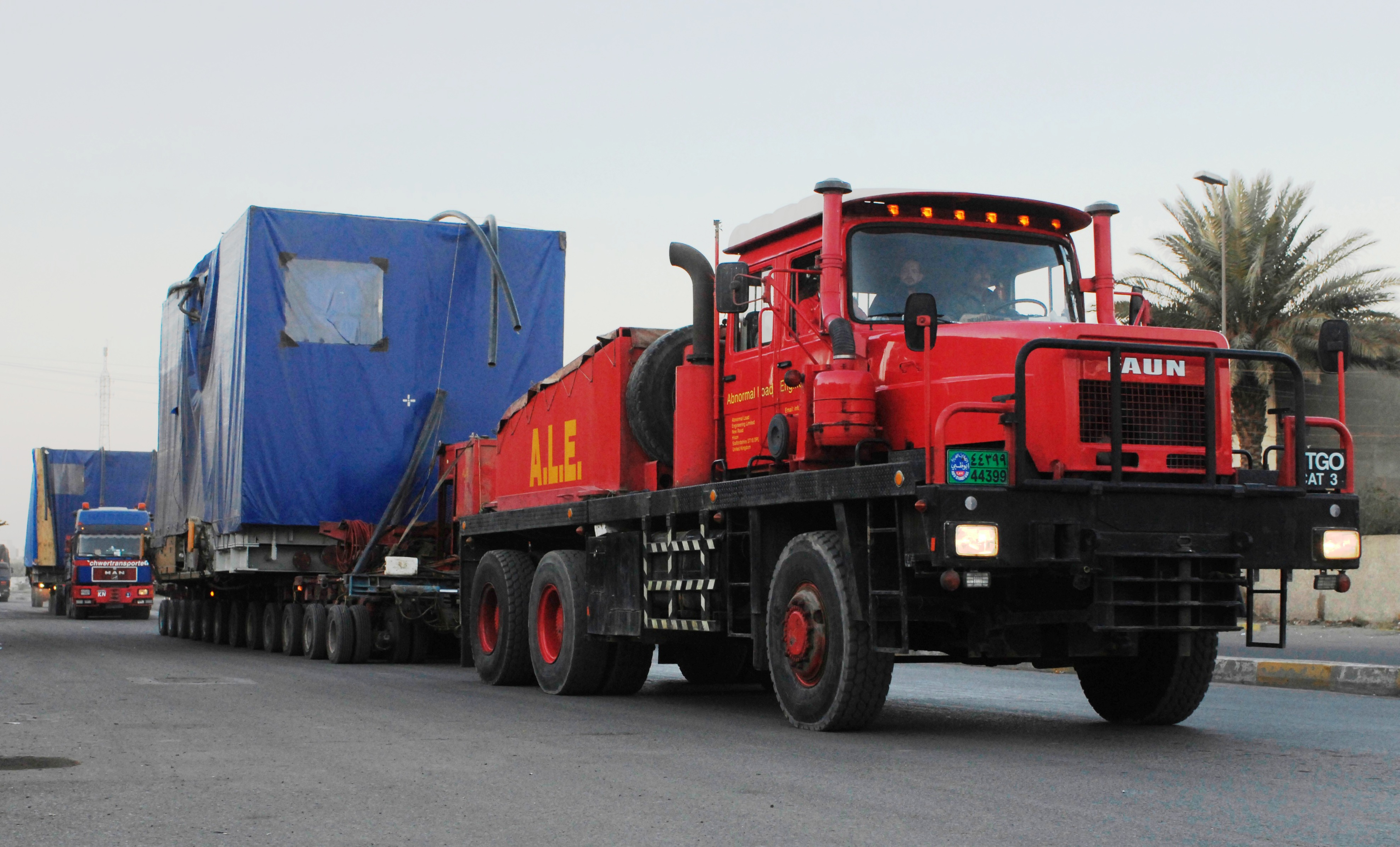 A civilian truck prepares to move a generator from the international zone in Baghdad, Iraq.